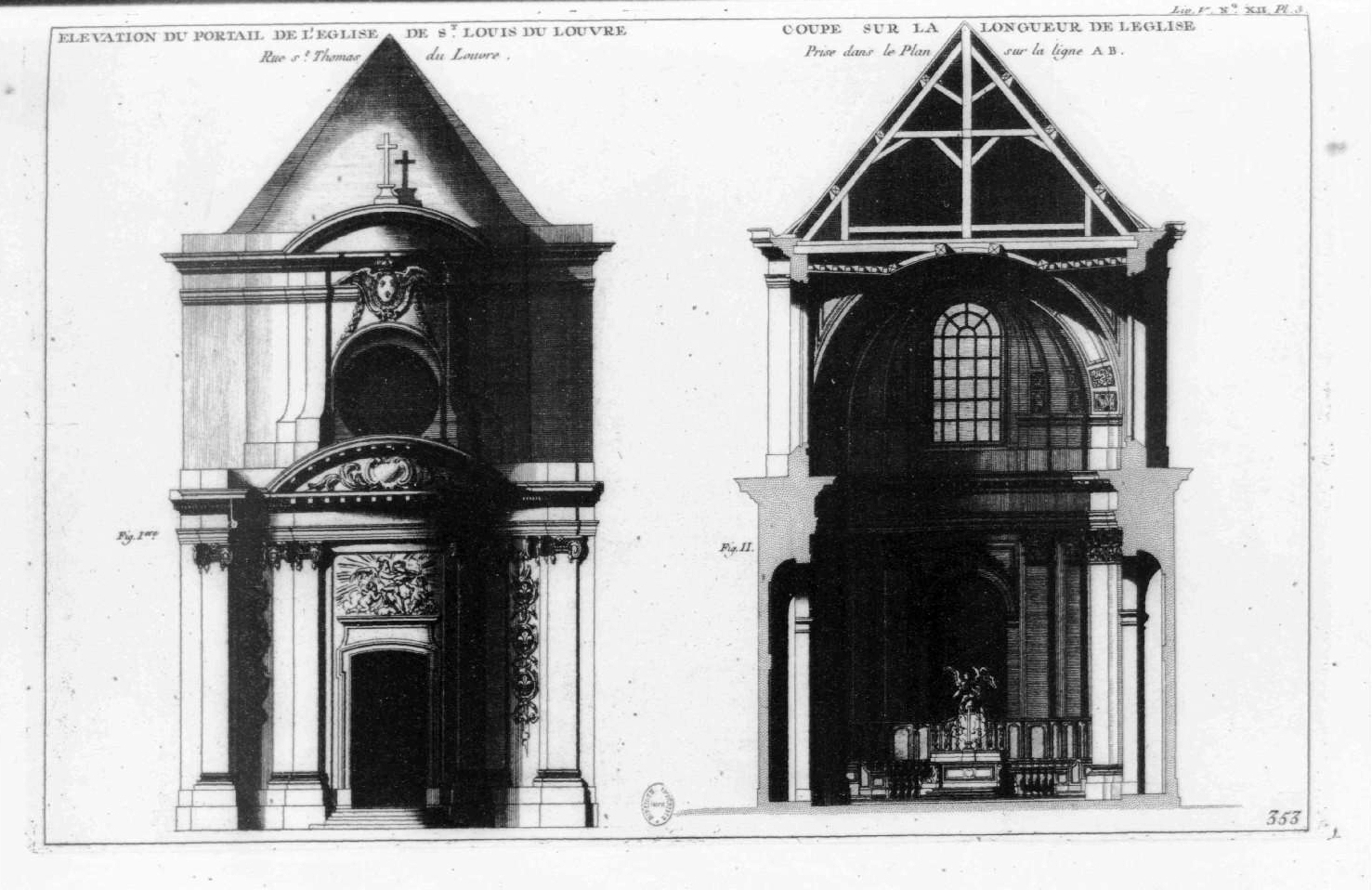 Portail and cross section of the church Saint-Louis-du-Louvre in the book Architecture françoise, ou Recueil des plans, élévations, coupes et profils des églises, maisons royales, palais, hôtels & édifices les plus considérables de Paris. The church was built in 1744 and destroyed at the begin of the 19th century. The architect of the church was Thomas Germain.